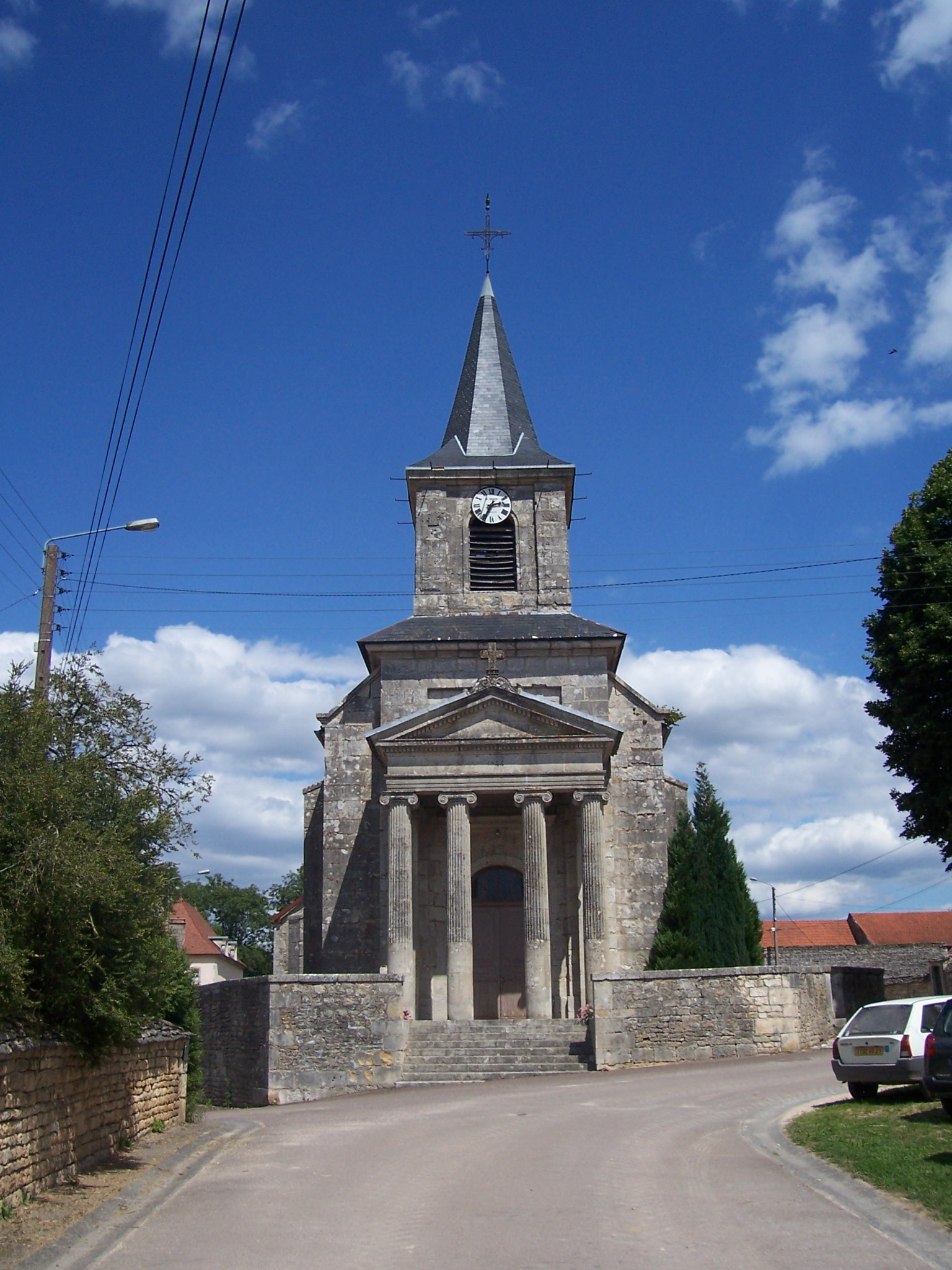 église Saint Léger 1790 (inscrite à l'inventaire des monuments historiques)